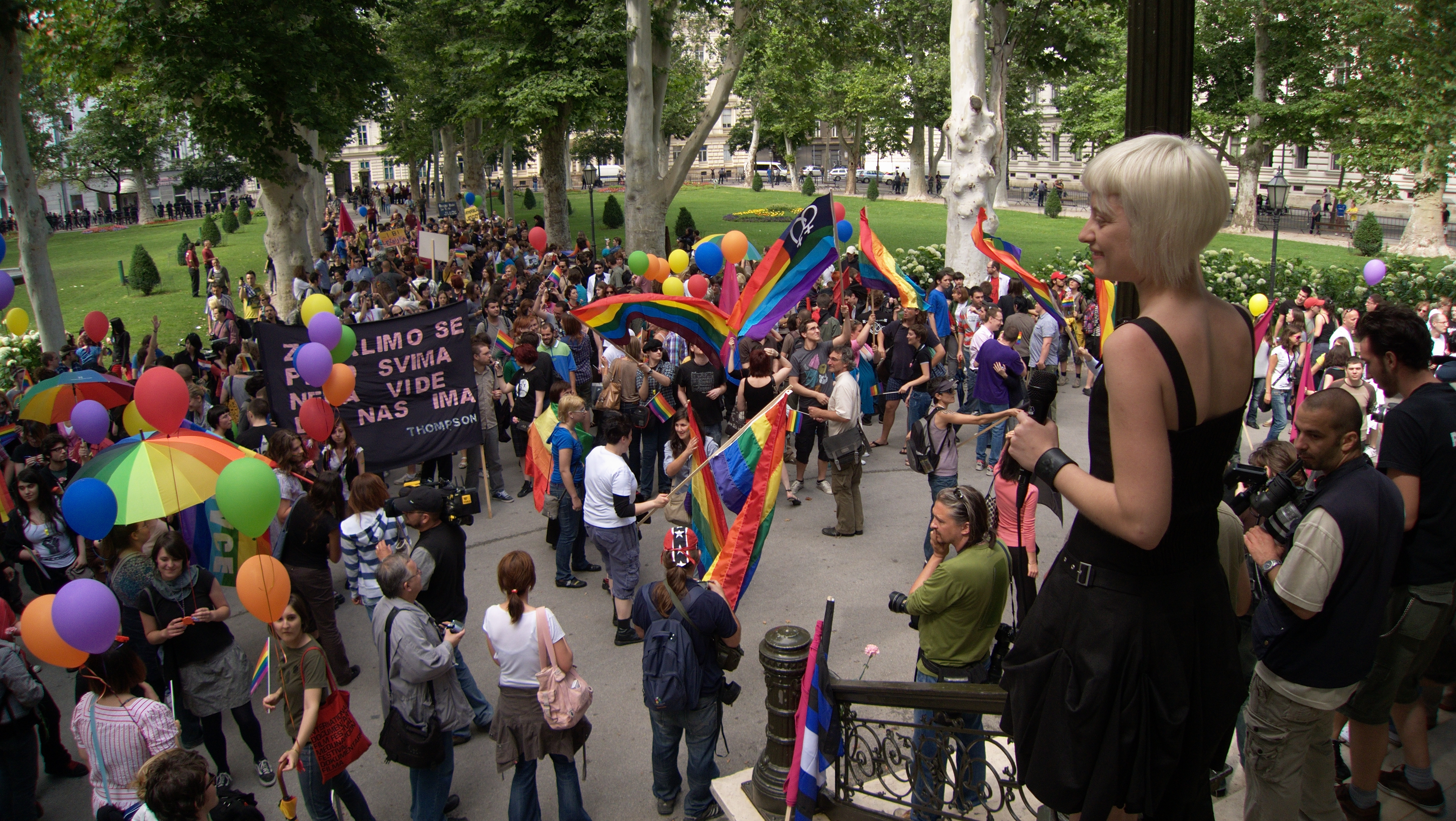 Zagreb Pride 2010 (Nikola Šubić Zrinski Square)